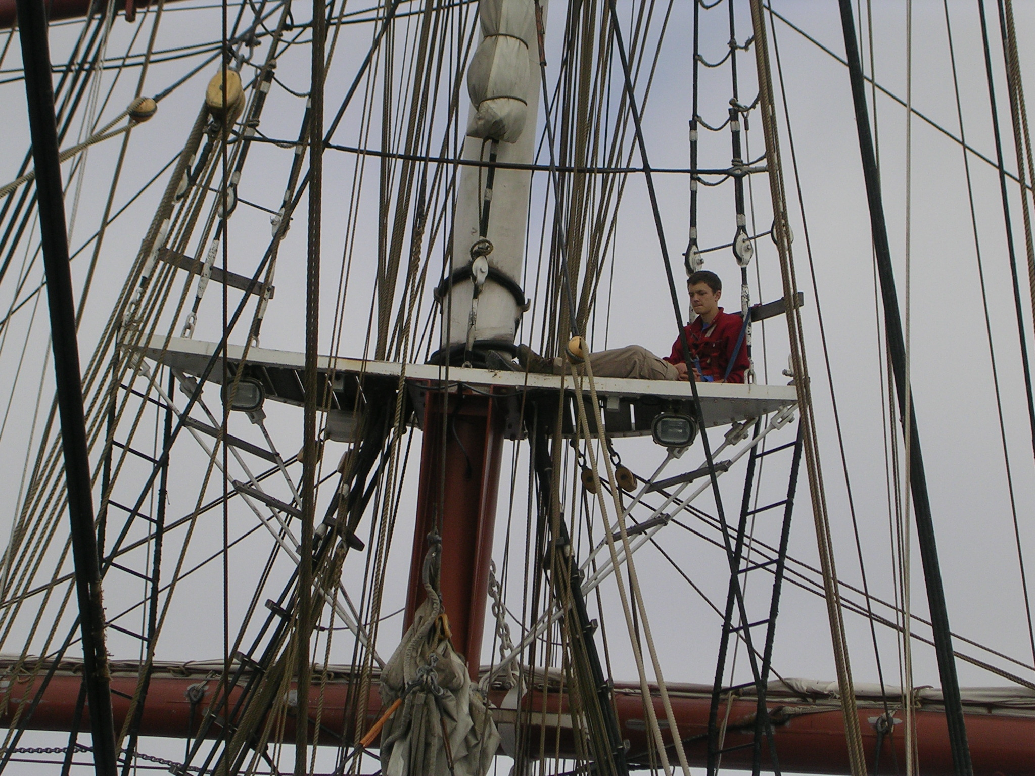 Prince William crewmember off watch and having some time alone on the fore top